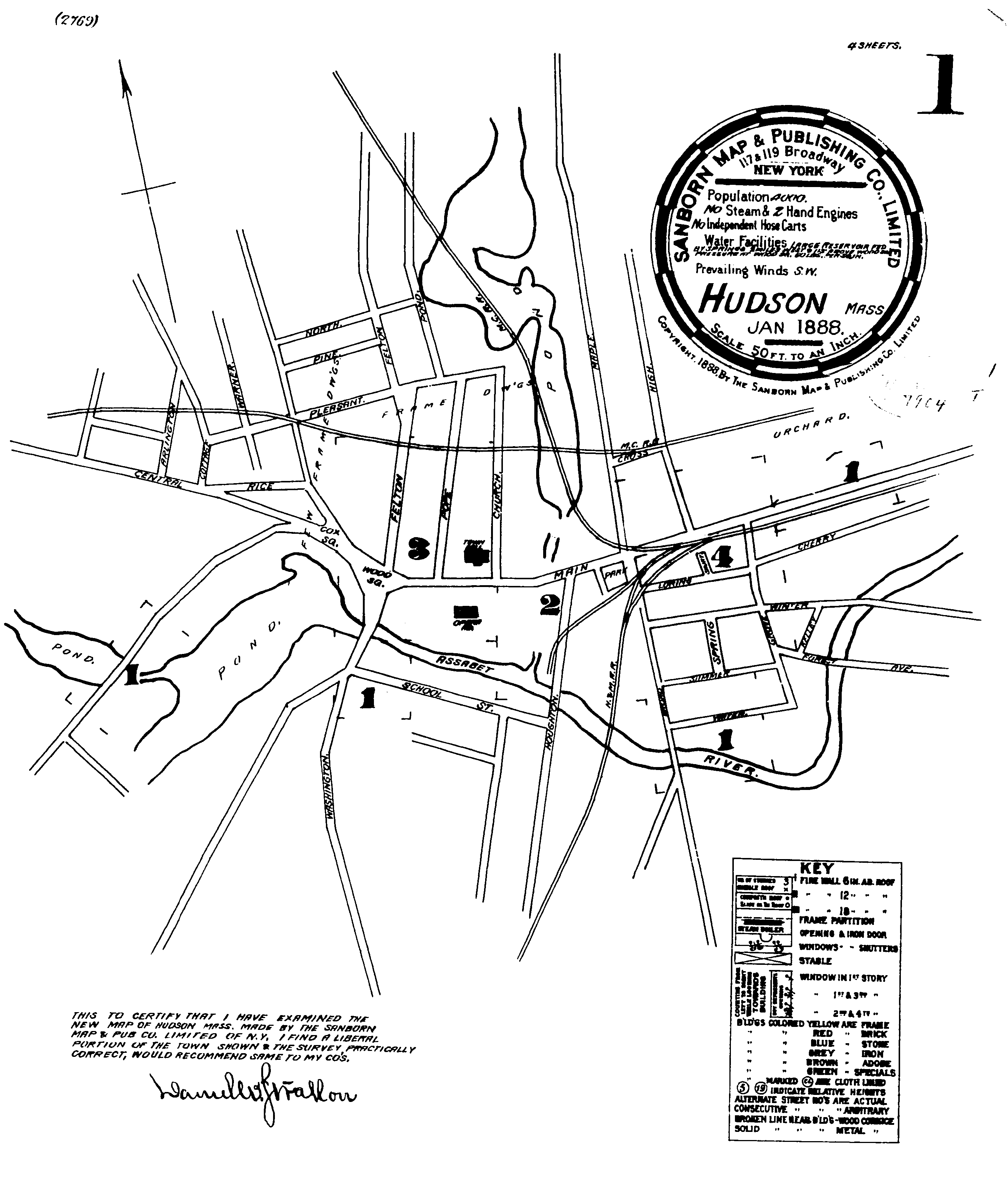 1888 Sanborn map of Hudson, Massachusetts - this is the upper right part of sheet 1.